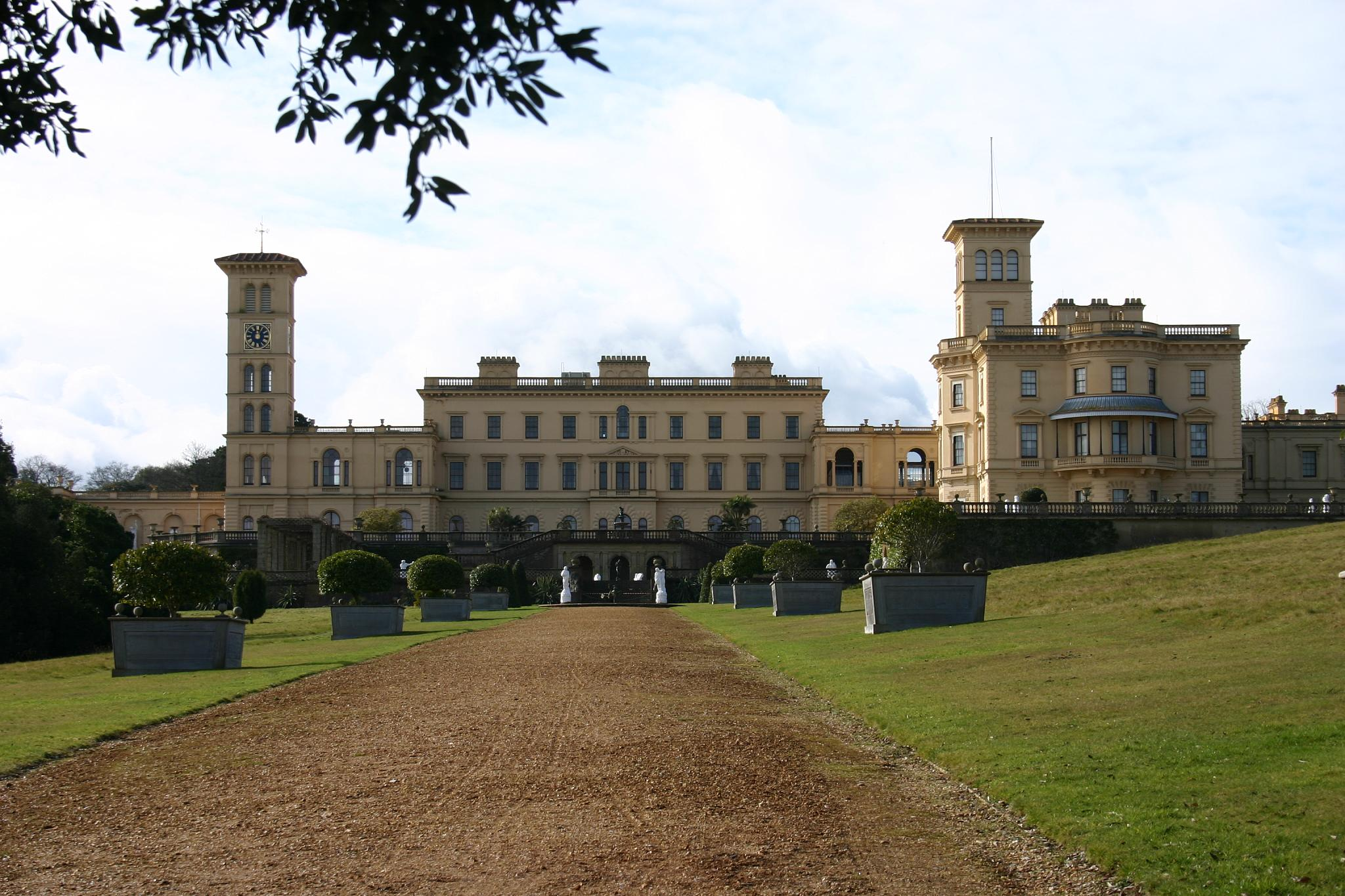 Osborne House, Isle of Wight, UK.